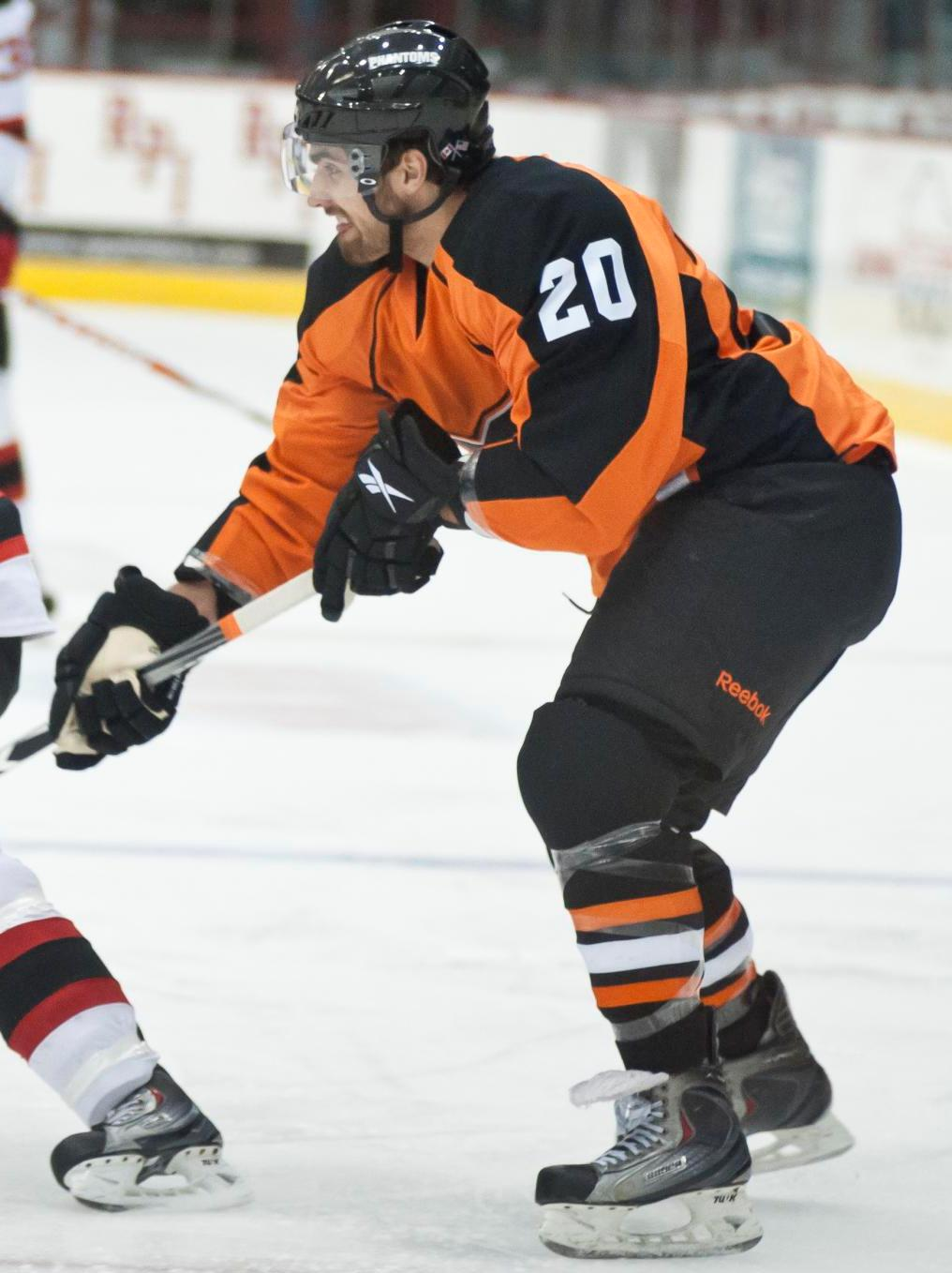 Cullen Eddy; October 2nd, 10 - Albany Devils vs. Adirondack Phantoms (PreSeason) - Houston Field House